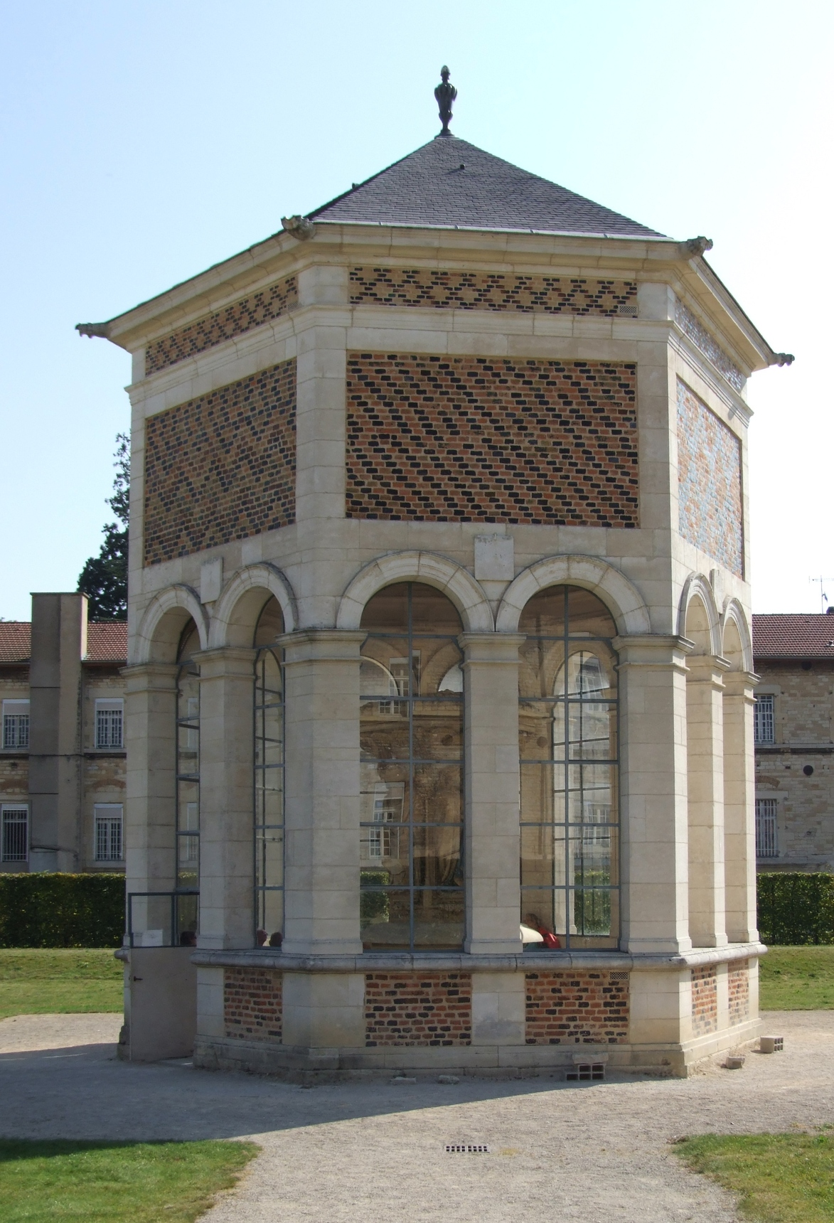 Dijon, Burgundy, FRANCE